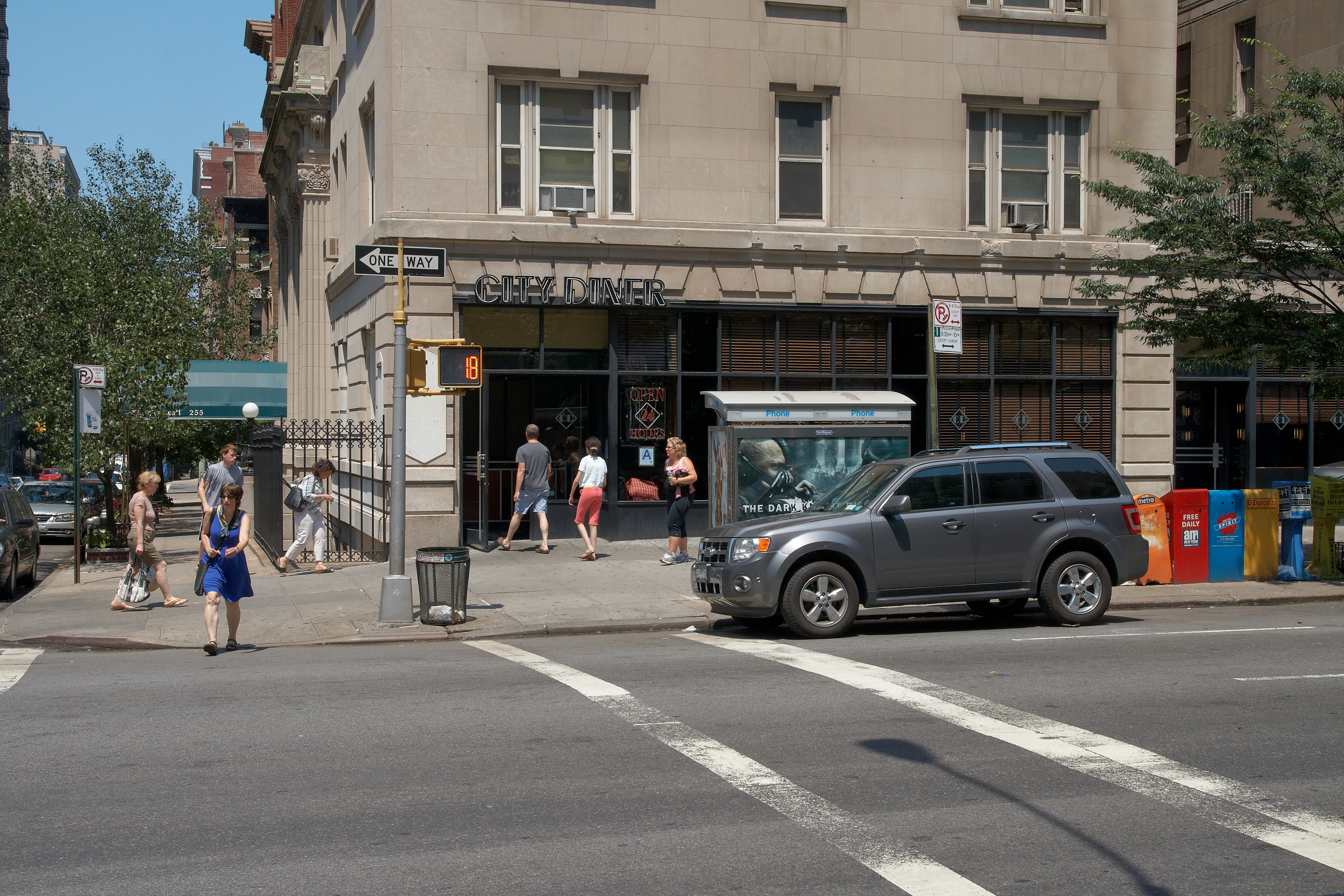 The Cornwall apartment building at 255 West 90th Street in Manhattan, New York City, as seen from across Broadway. The portion of the building facing Broadway has a diner on the first floor. A 2008–2012 Ford Escape is parked at the curb.